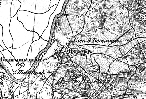 Neravai, 1865-1903